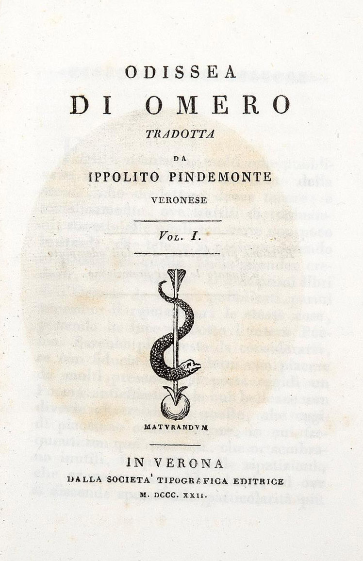 Odissea di Omero - Ippolito Pindemonte